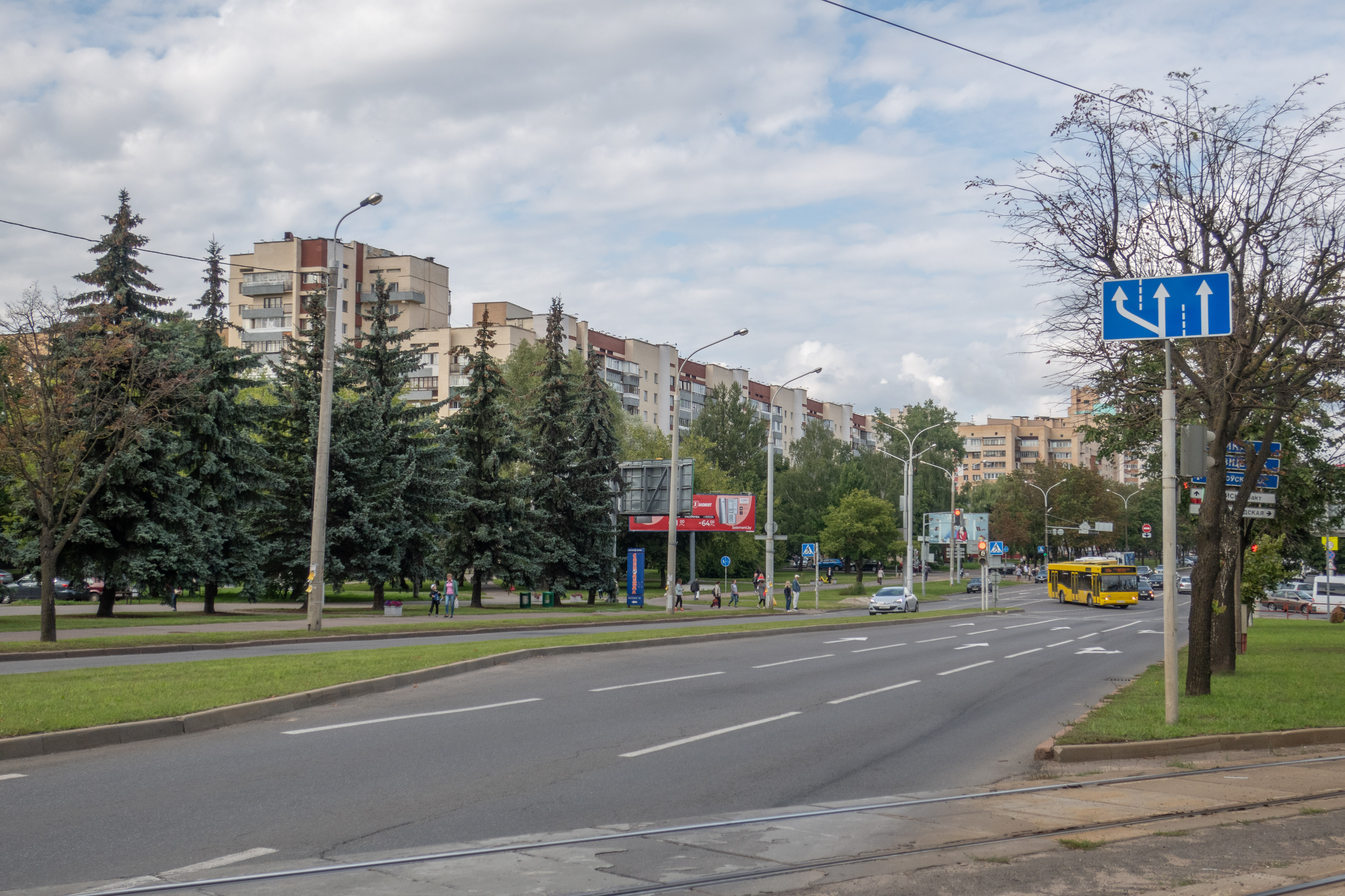 Lahojski trakt street. Minsk, Belarus